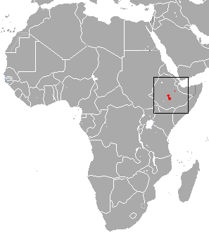 Glass's Shrew (Crocidura glassi) range